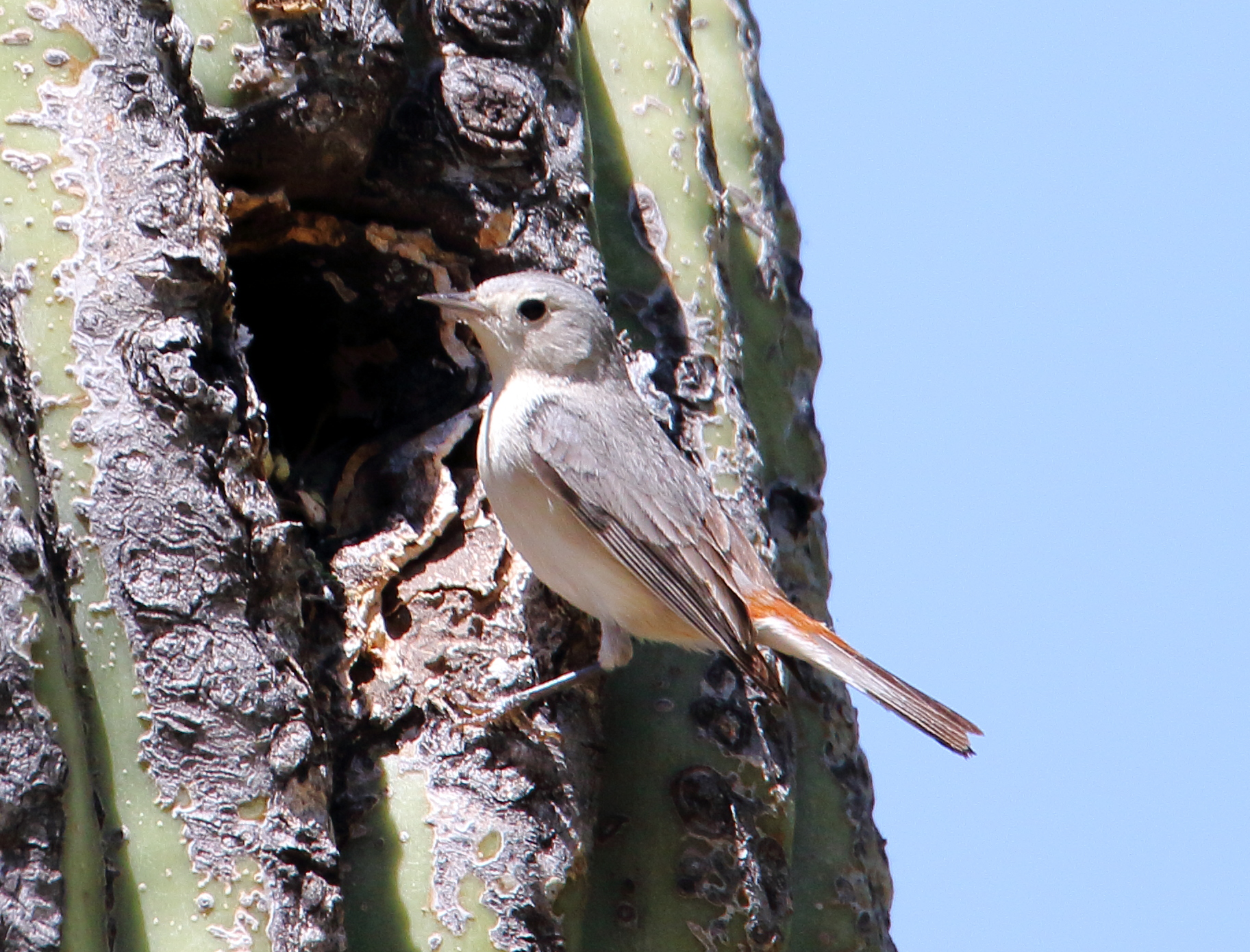 Photographed at Hassayampa River Preserve, Arizona. Bird is at a cavity nest site.